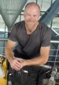 Richard Abruzzo, 47, was a distinguished balloonist. Pictured at the Anderson-Abruzzo Albuquerque International Balloon Museum. Son of Ben Abruzzo. Richard and Dr. Carol Rymer Davis won the 2004 Gordon Bennett Gas Balloon Race and the 2003 America's Challenge Gas Race. Mr Abruzzo was part of a prominent family business in New Mexico involved in real estate and a ski lift enterprise. He went missing early on Wednesday morning September 29 during a thunderstorm, five days after taking off from a site near Bristol, England. He and fellow balloonist Carol Rymer Davis were competing in the 54th Gordon Bennett Gas Balloon Race, which has attracted the world's top balloonists since 1906, when their gas balloon suddenly vanished over the Adriatic Sea. Richard and his co-pilot were missing until discovered by a fisherman on December 6th, 2010.